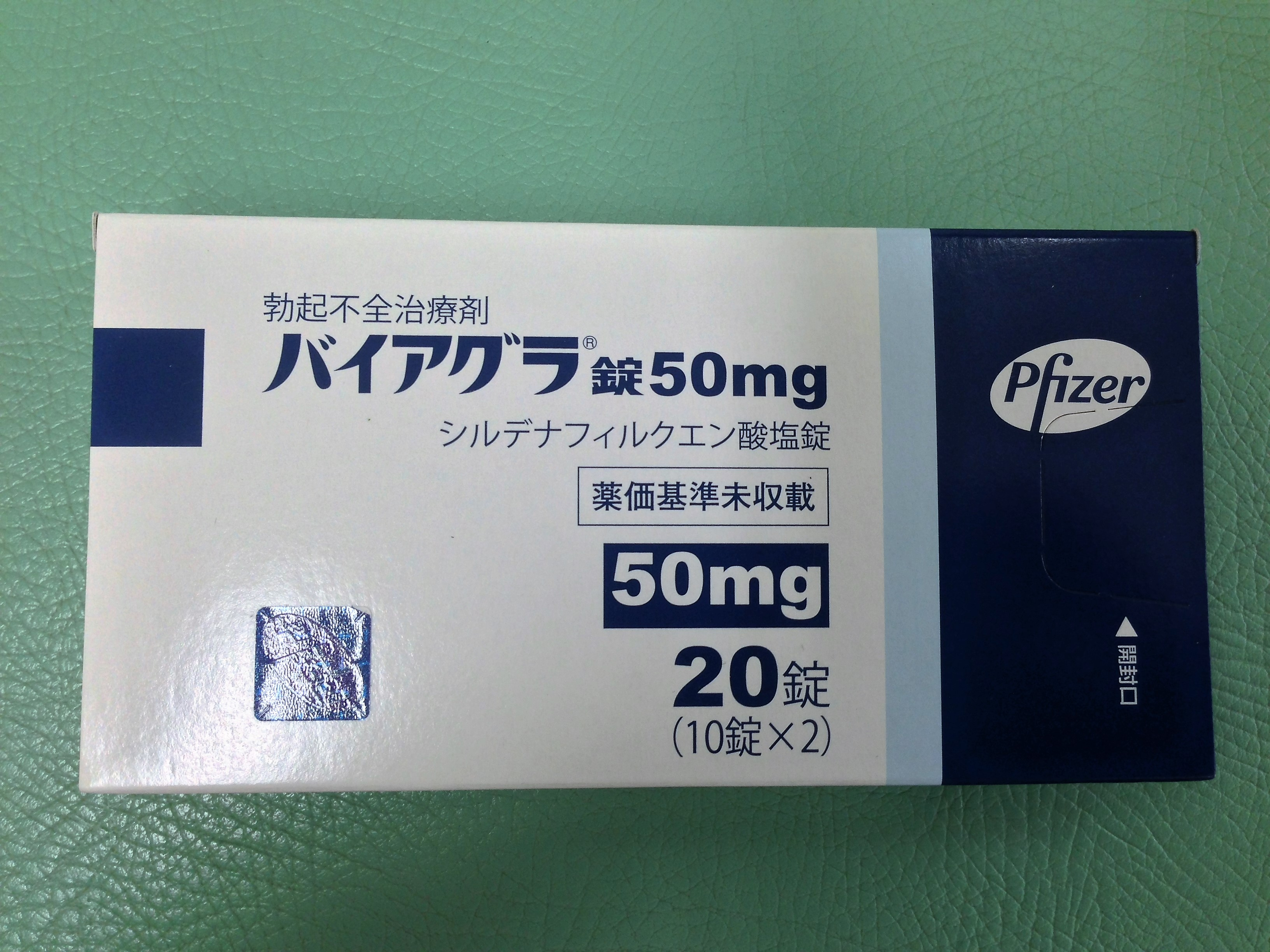 Box of 20 Viagra (sildenafil) 50 mg tablets.